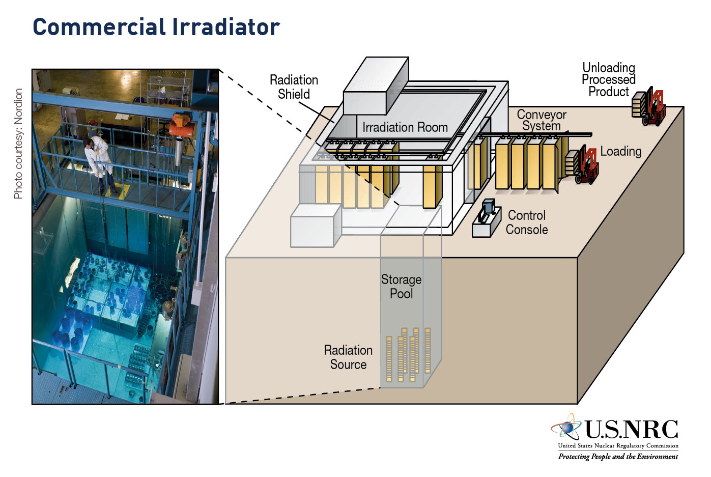 Infographic of Commercial Irradiator from the 2017-2018 Information Digest, NUREG 1350, Volume 29. Published in August 2017. For more information go to: Visit the Nuclear Regulatory Commission's website at To comment on this photo go to Photo Usage Guidelines: Privacy Policy: For additional information contact OPA Resource.